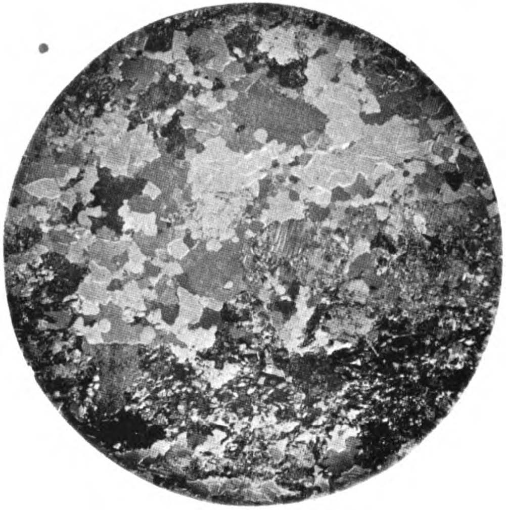 Plate IX, Figure 1, of 1898 publication called Maryland Geological Survey Volume Two, with caption "Photomicrograph of Granite, Port Deposit. (Magnified Ten Diameters)." Field represents approximately 0.85 cm. Under crossed polarized light.